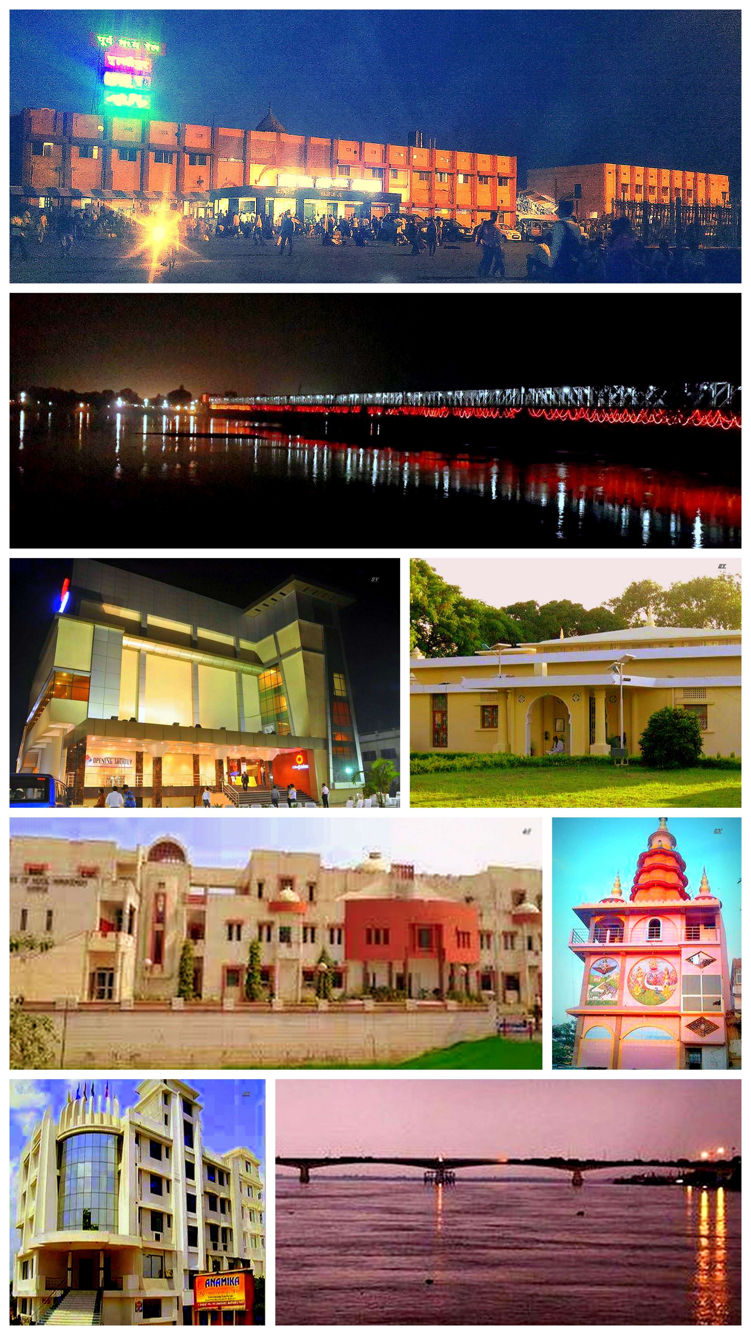 This collage contains 8 images named- Hajipur railway station, Old Gandak bridge, Circuit House, Nageshwarnath Temple, Mahatma Gandhi Setu, Hotel Anamika, Institute of Hotel management and Cinekrishna Mall of Hajipur.